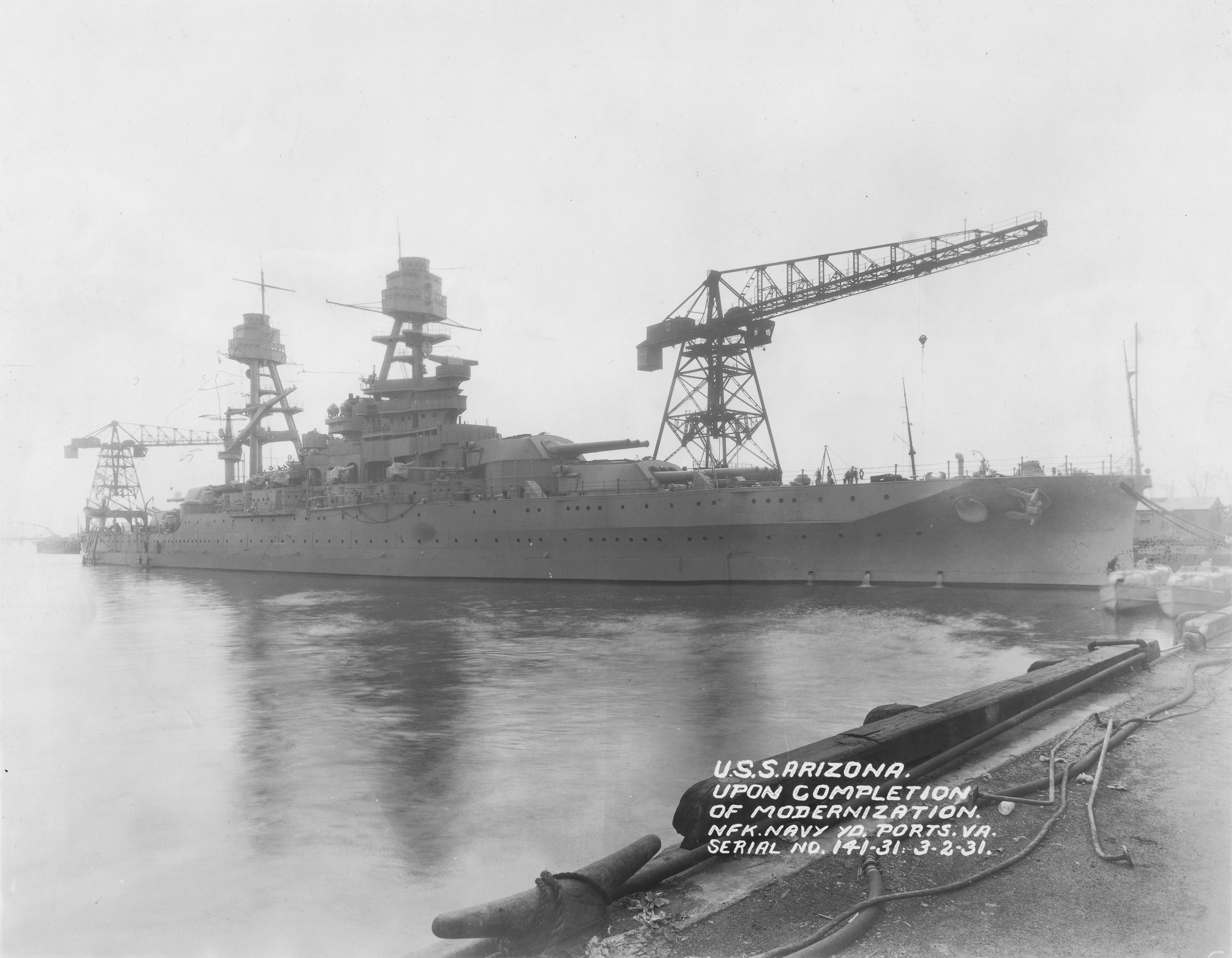 Starboard front quarter view of the USS Arizona in the Norfolk Naval Shipyard in Portsmouth, Virginia, in March 1931 following a modernization.